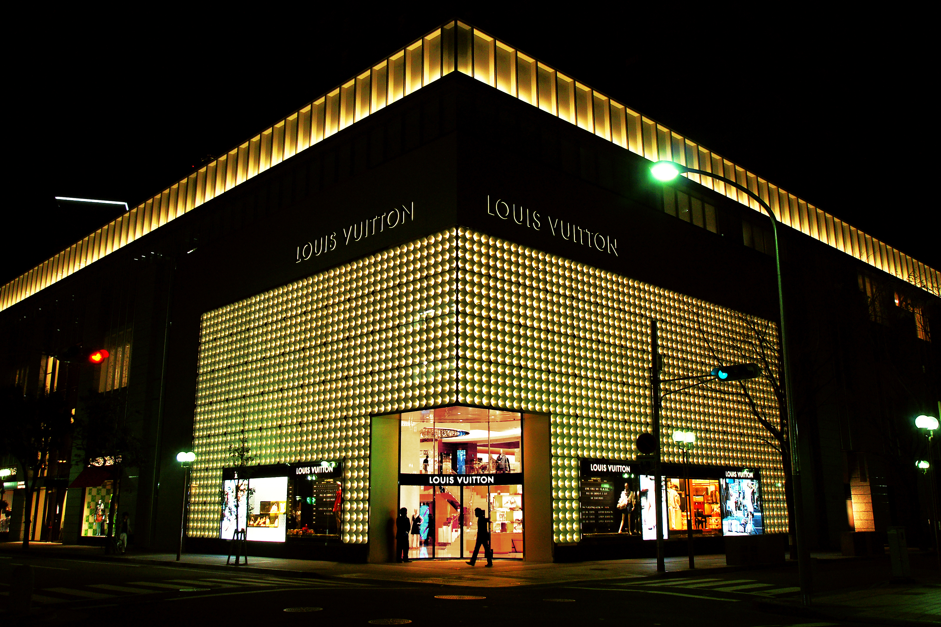 Louis Vuitton Kobe Maison in The Old Settlement Hall of No.25, Kobe, Kobe, Hyogo prefecture, Japan